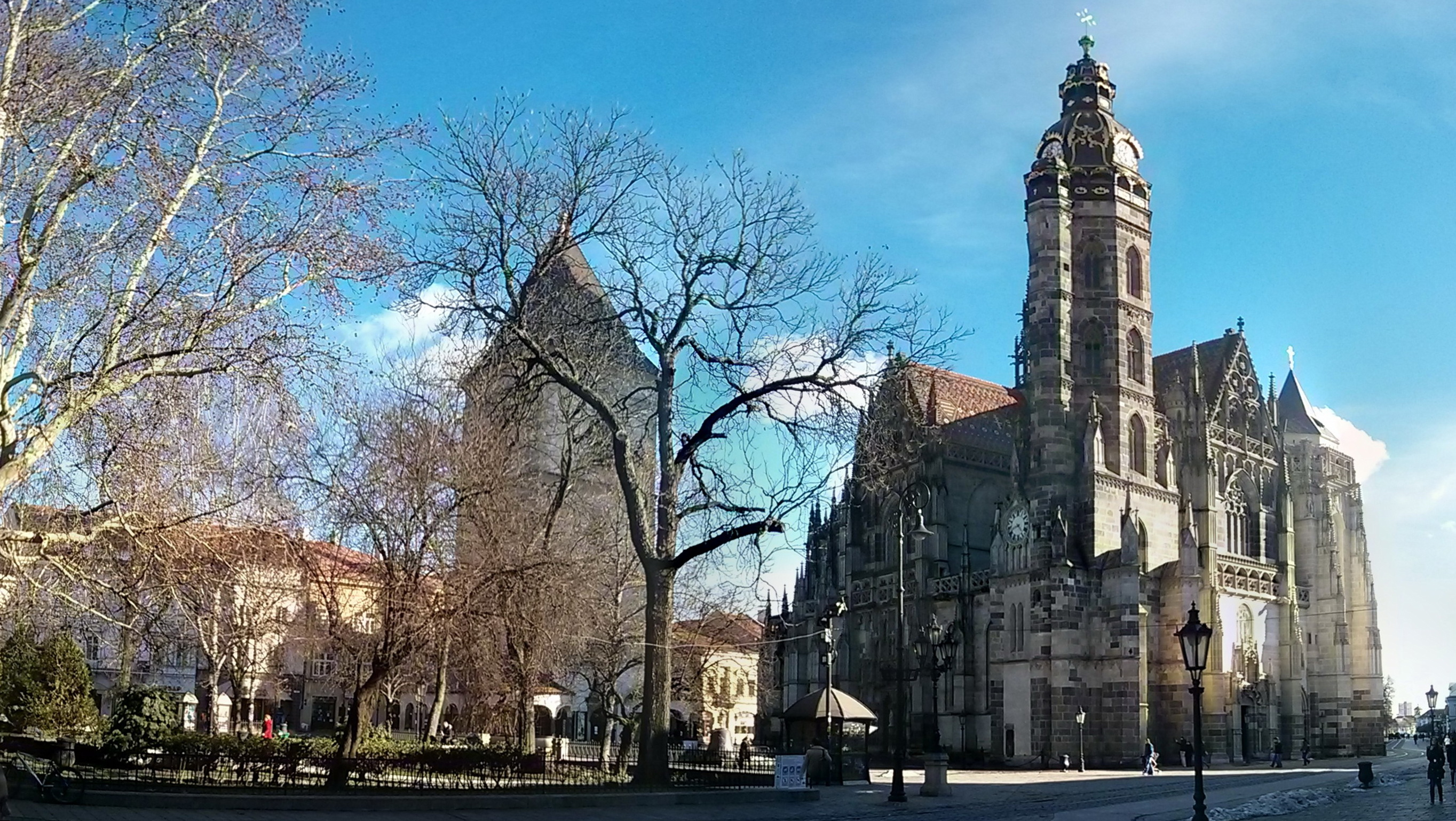 St Elisabeth's Cathedral Košice